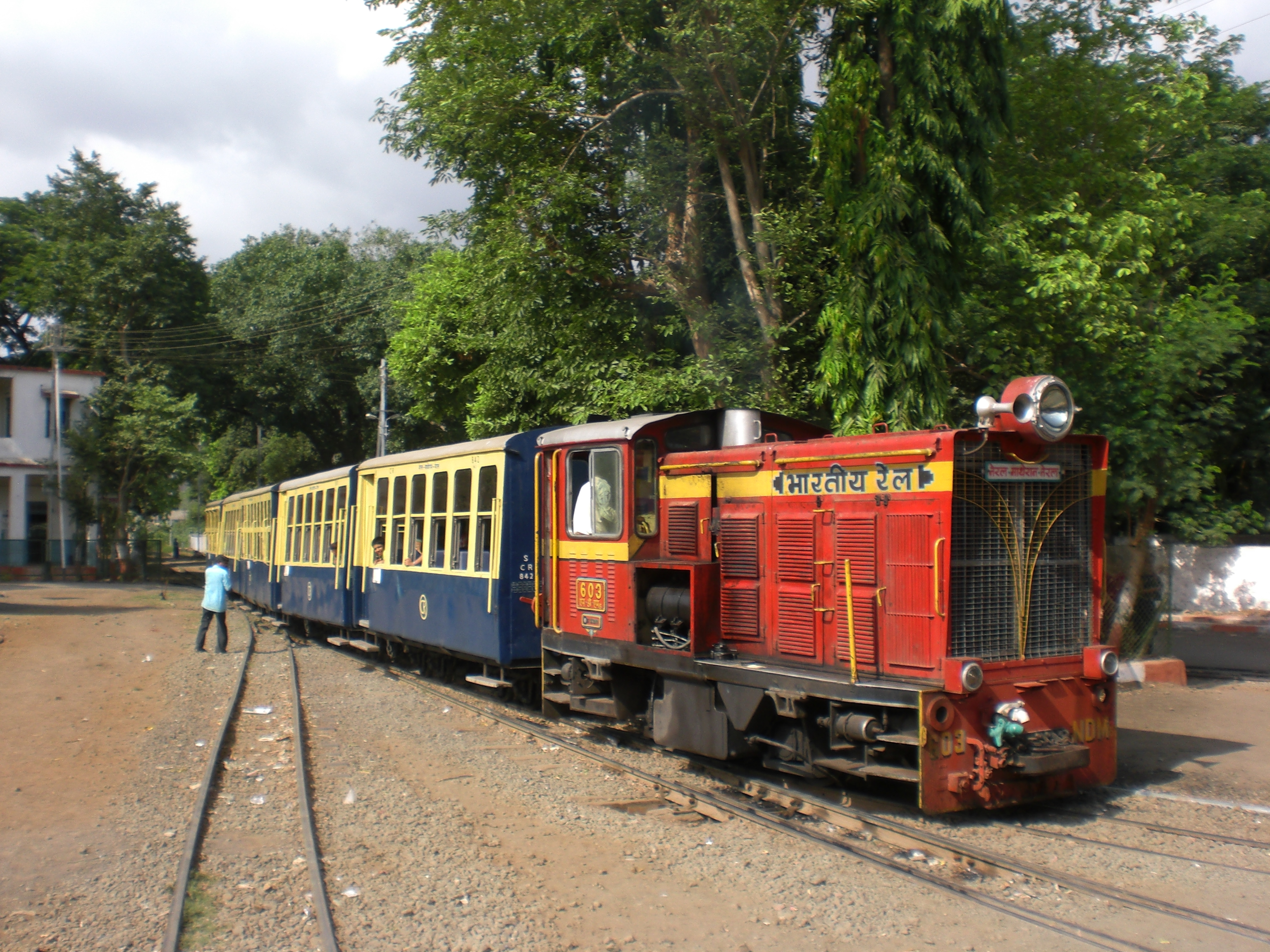 A train shunting at Neral station.